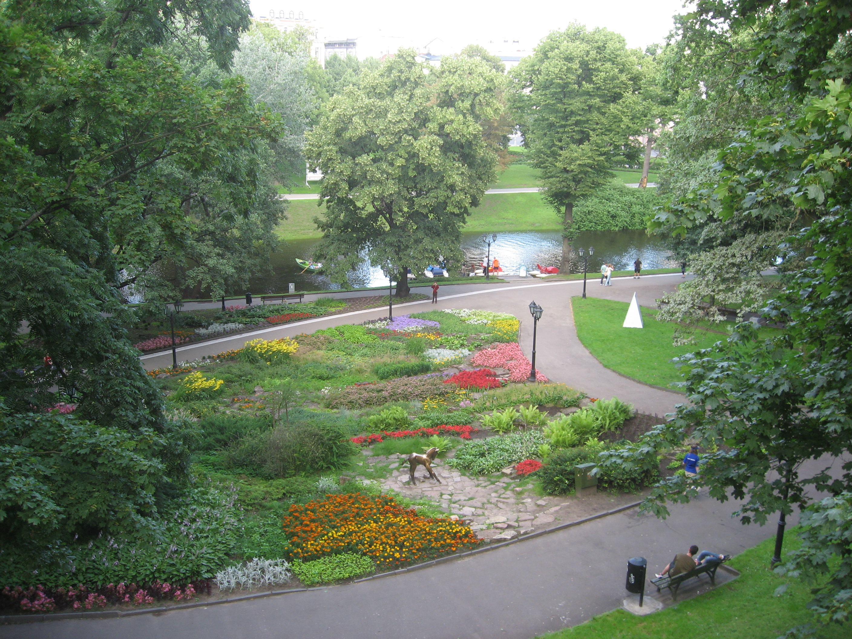 Riga Town Canal seen from Bastion Hill